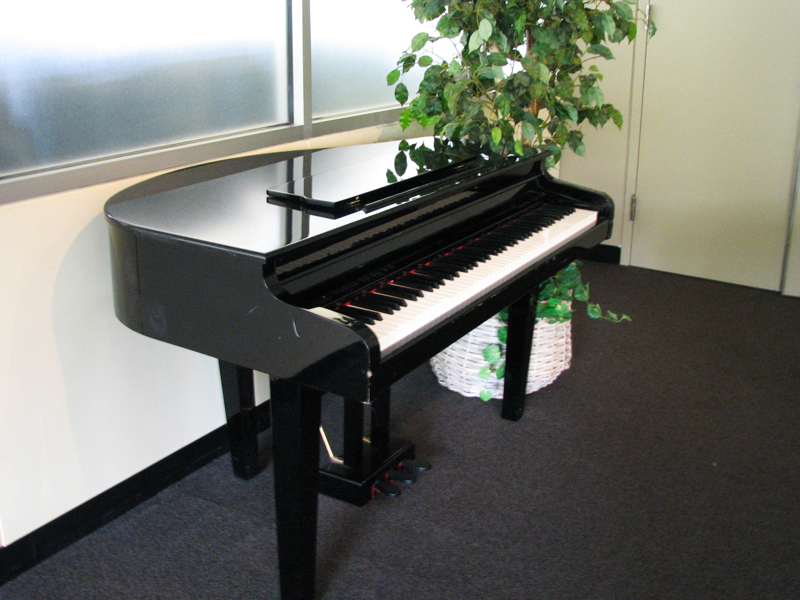 This annoys me, too, because it's a gorgeous electronic piano but it doesn't appear to be plugged in to anything. And therefore doesn't work.